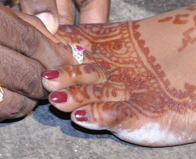 Groom wearing Metti to the bride